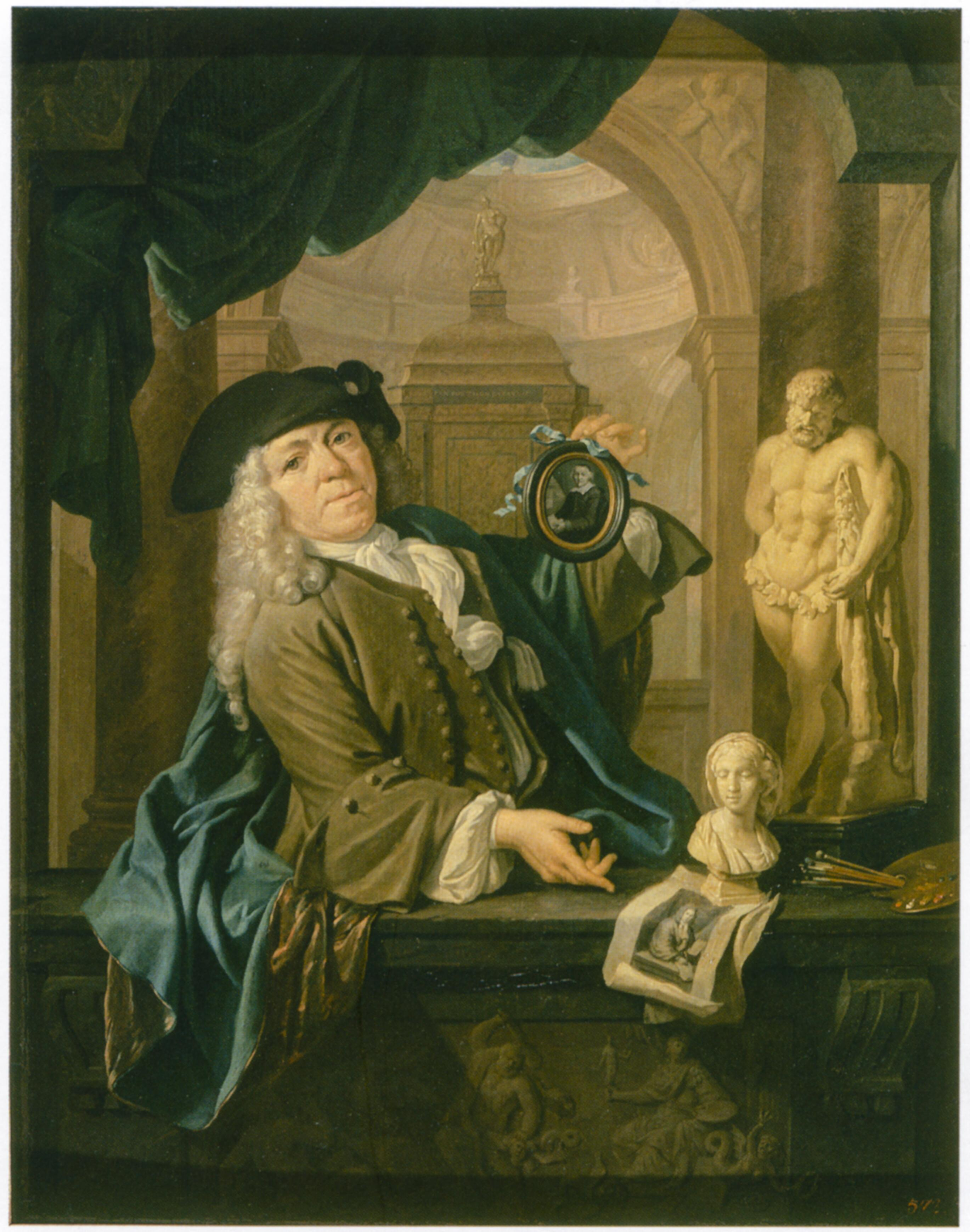 Portrait of Arnoud van Halen (1673-1732), by Christoffel Lubieniecki, 1725. Poesjkinmuseum, Moscow